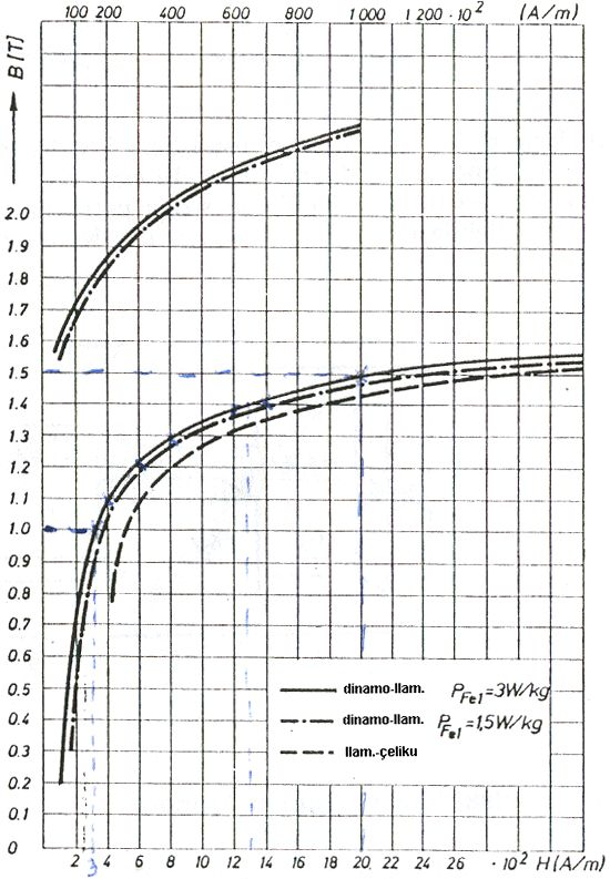 Figura 2. Lakoret e magnetizimeve